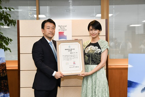 Kō Shibasaki, President of the Les Trois Graces Inc., received the Letter of Appointment as the Goodwill Ambassador for the Environment from Hiroyoshi Sasagawa, Parliamentary Secretary of the Environment, at the Central Government Building No.5 in Chiyoda Ward, Tōkyō Metropolis on July 6, 2018.